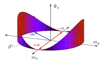 Simplified two-dimensional anisotropy energy density (two-well potential) characterized by a unit vector a for the uniaxial case. The magnetization director m evolves on the unit circle.